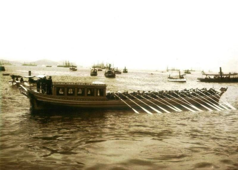 Rowing boat. Brazilian Navy.